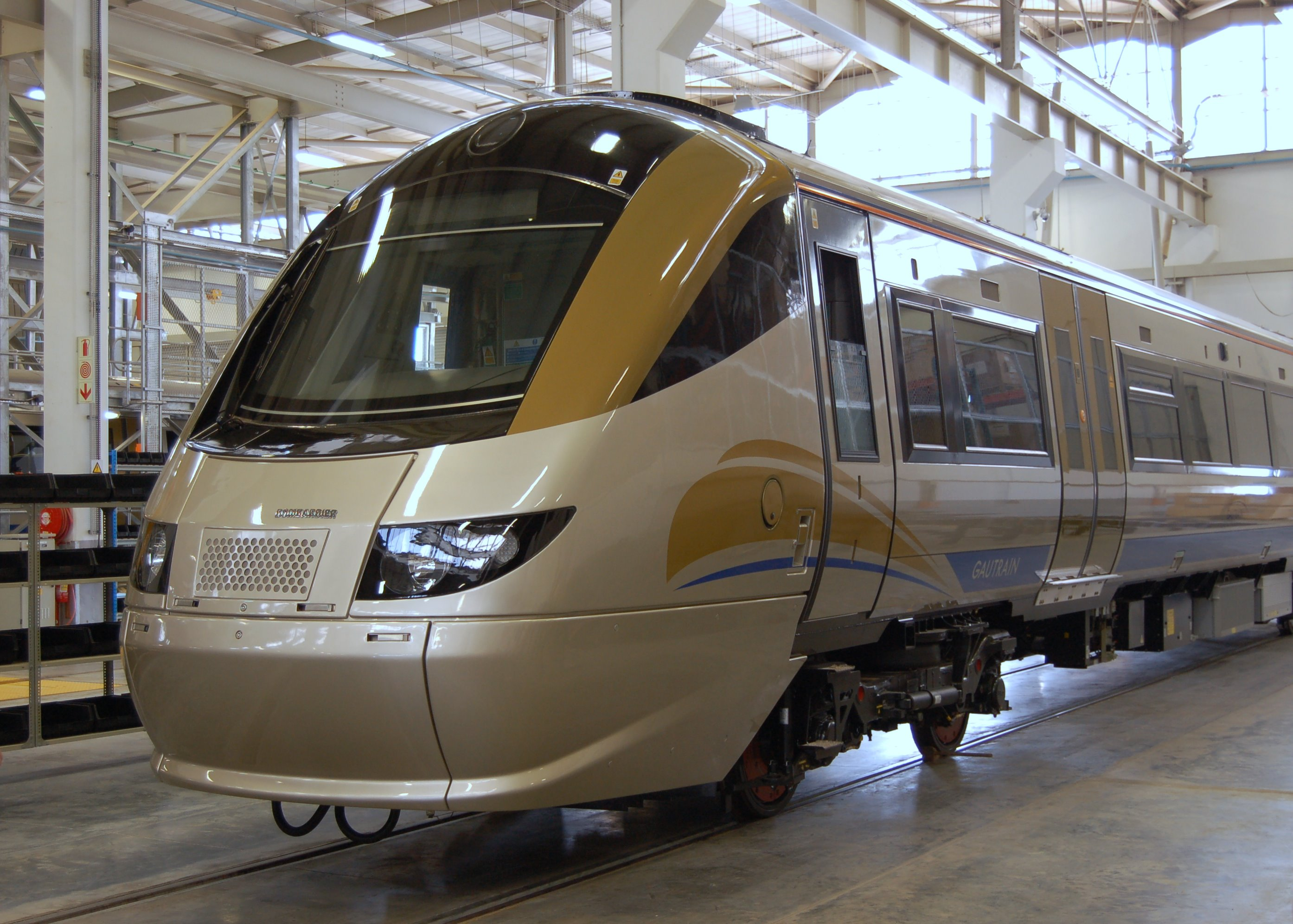 Gautrain inside the Midrand depot. Neutral tone adjusted.